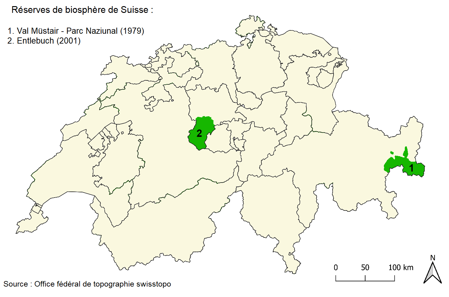 Map of Switzerland's Biosphere reserves